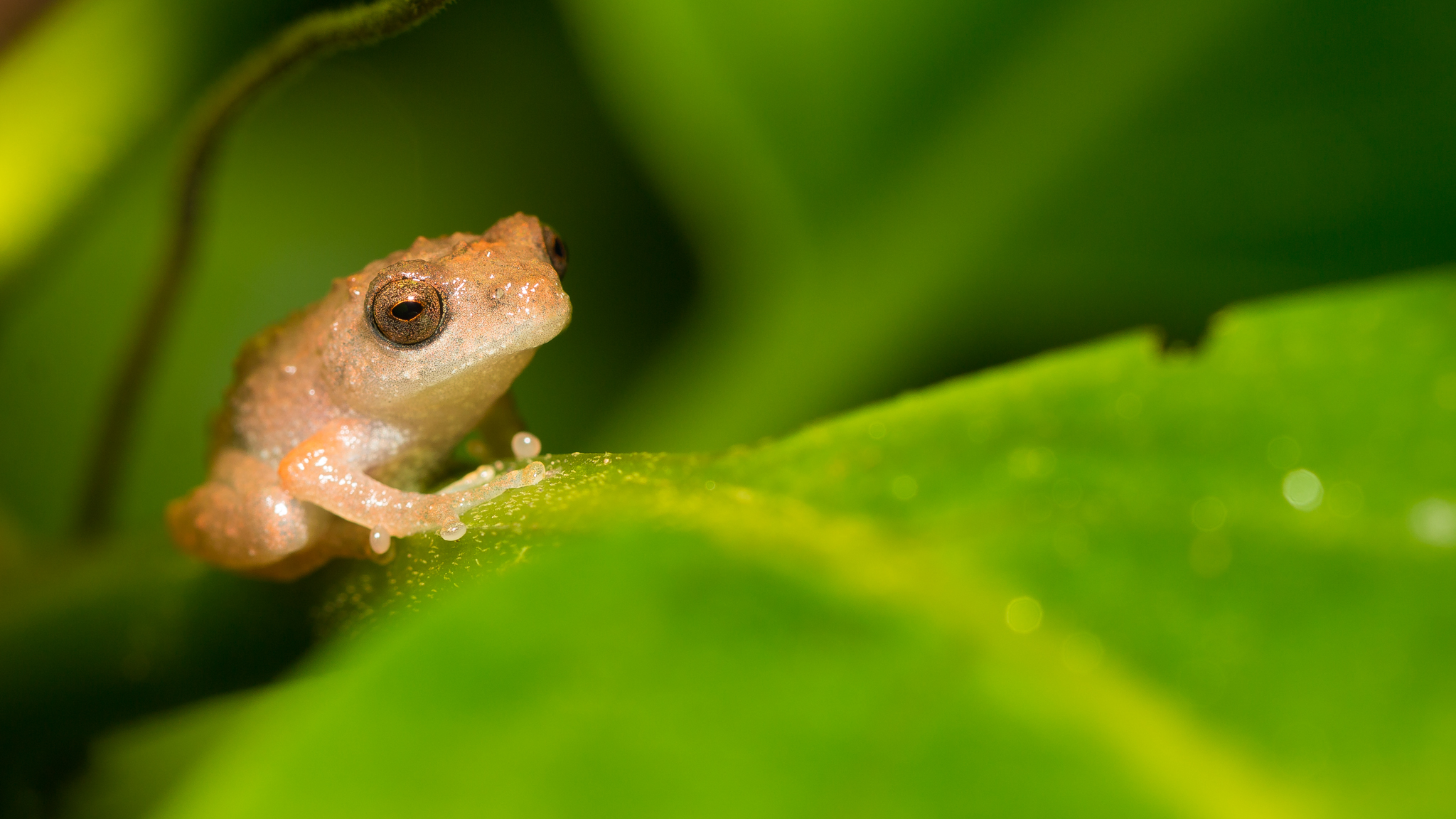 Individual at Amboli Ghat